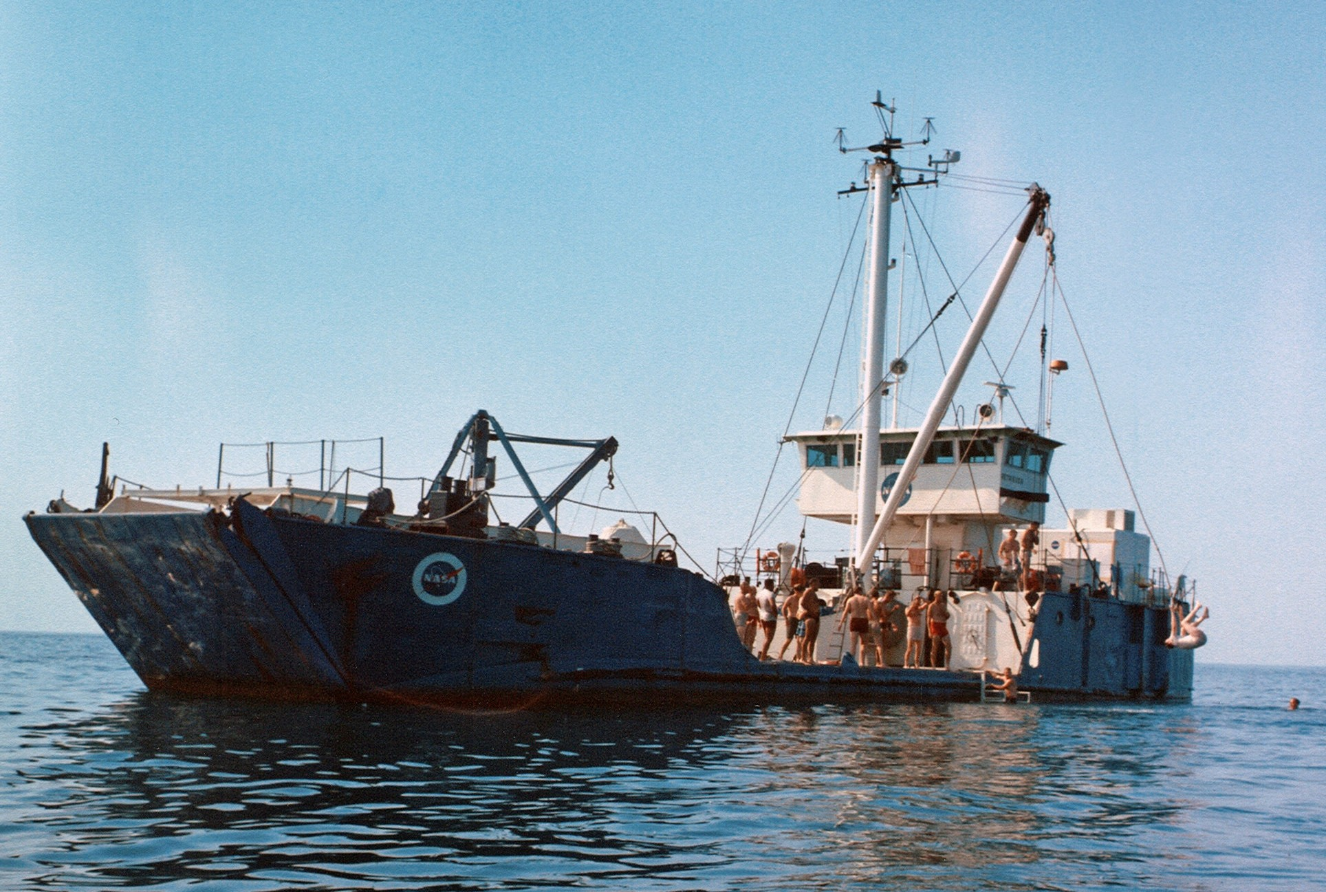 MV Retriever in 1966 during Apollo program water recovery training.